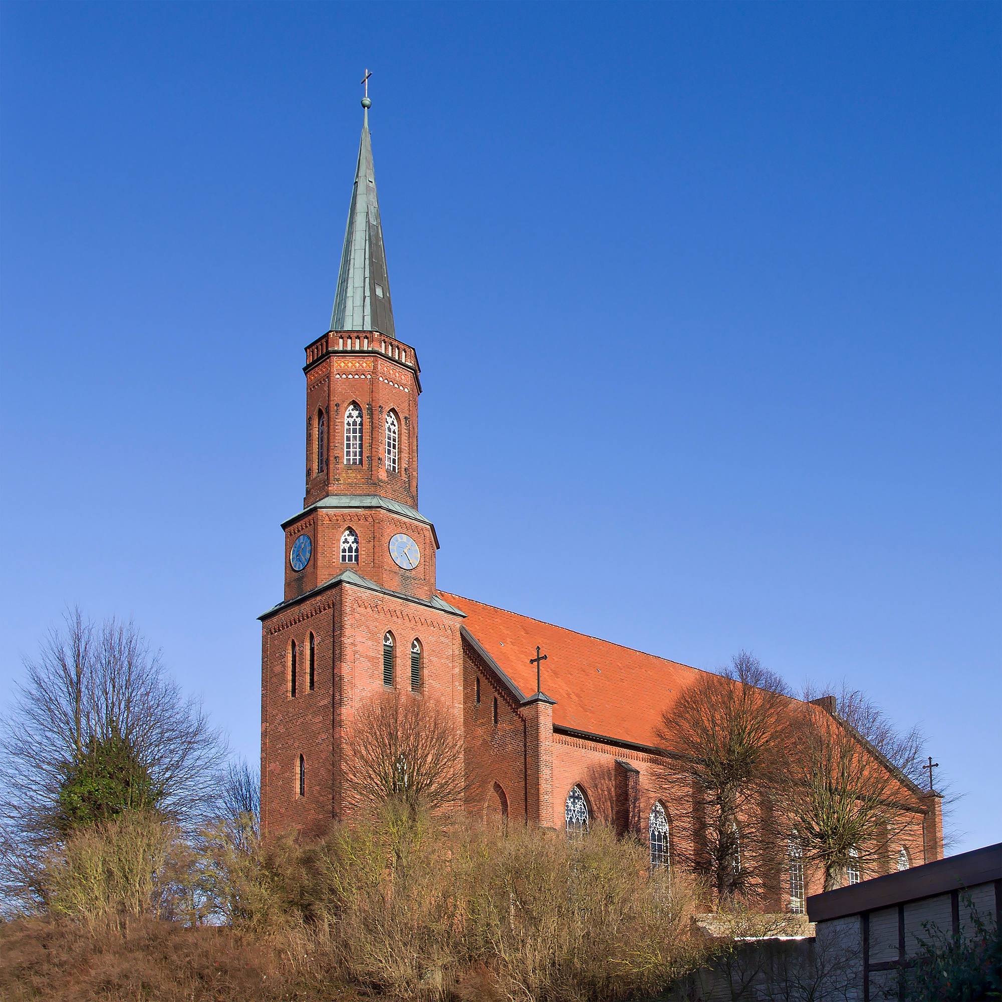 Church of Clenze (district Lüchow-Dannenberg, northern Germany).